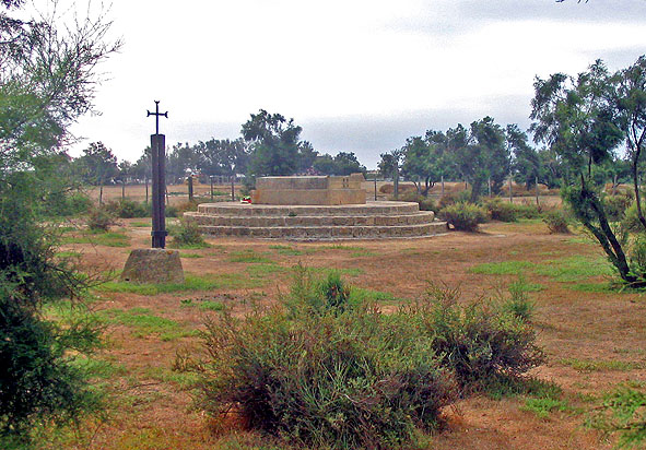 Marquis de Baroncelii's grave at Les Saintes-Maries-de-la-Mer, Bouches-du-Rhône